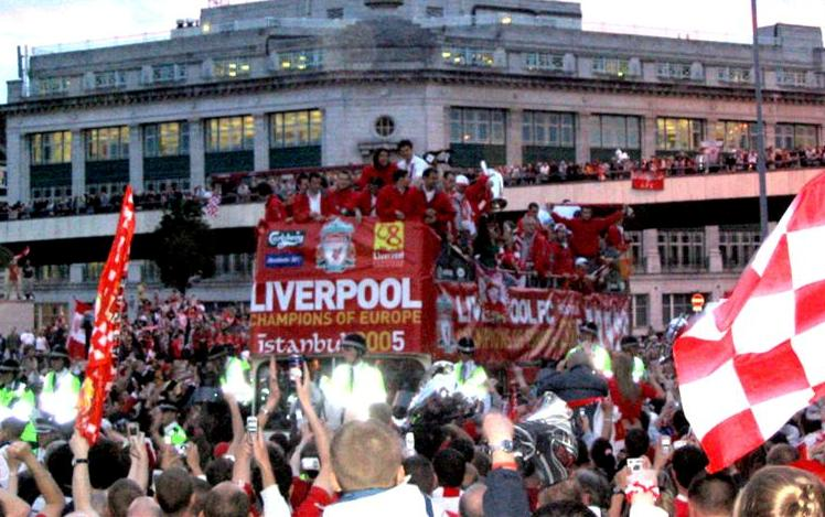 Liverpool team parading the Champions League trophy in Liverpool city centre in open-top bus in the wake of their CL victory in Istanbul in 2005